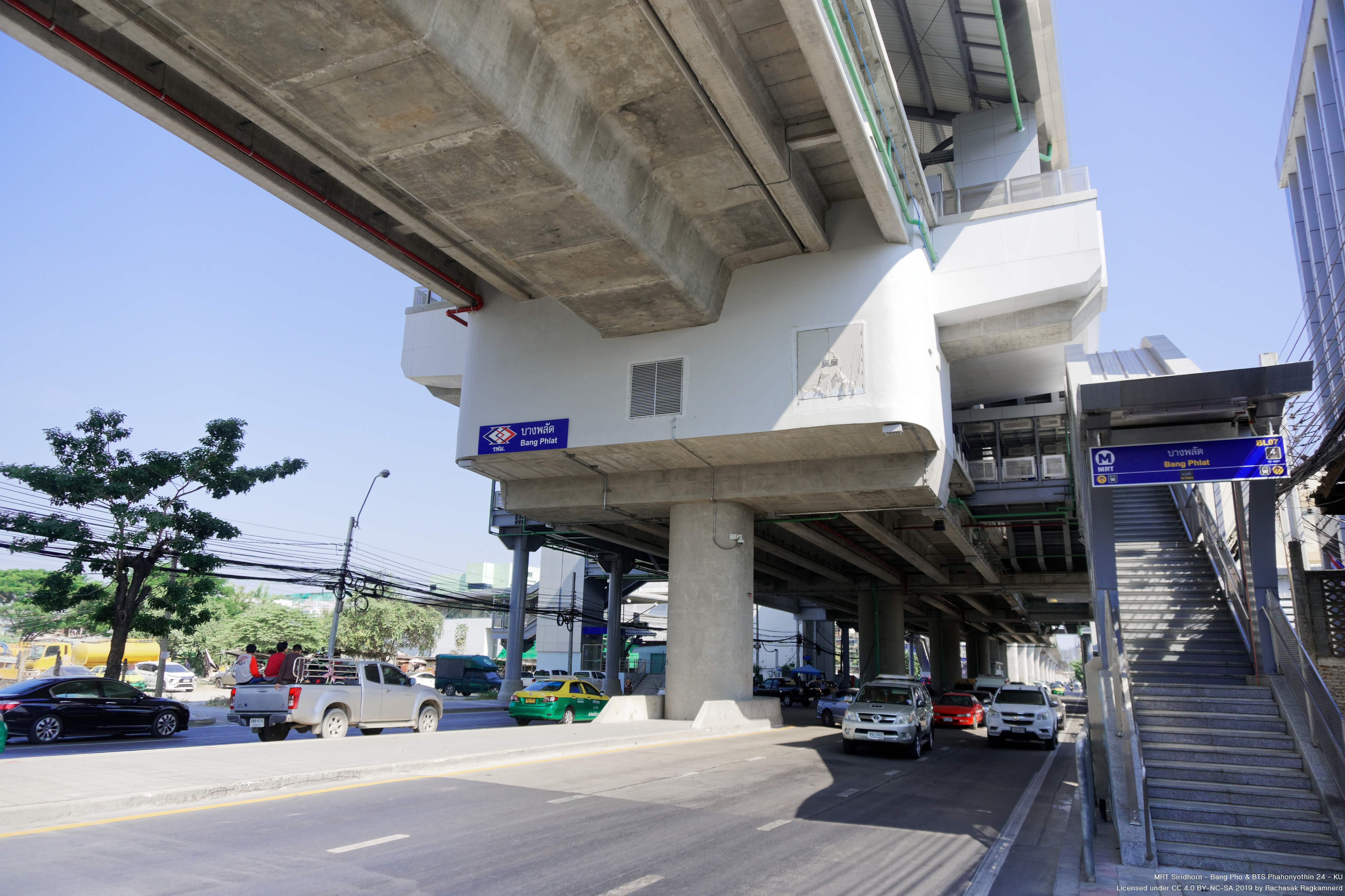 MRT Bang Plad - Station